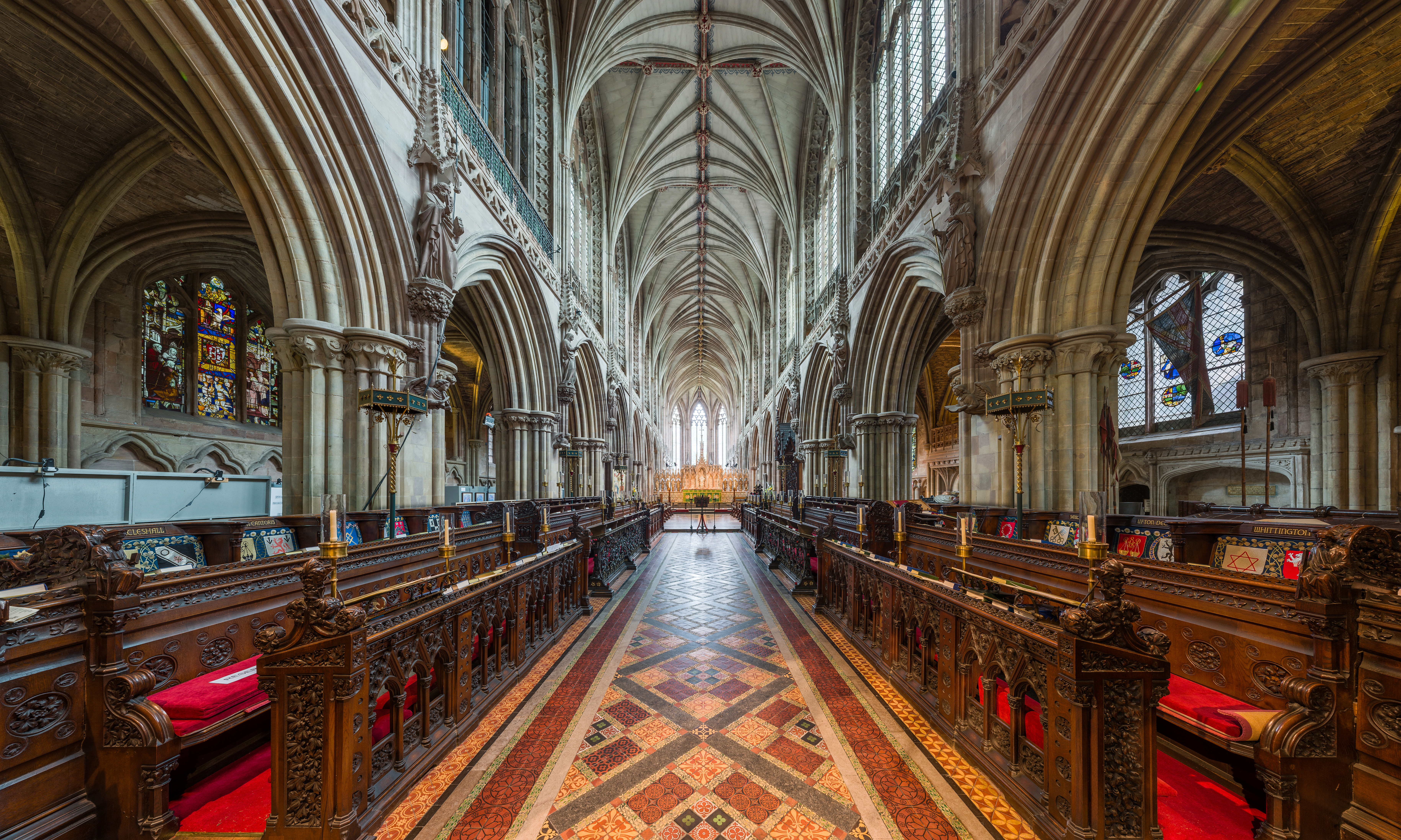 Looking east in the choir of Lichfield Cathedral, Staffordshire, England.